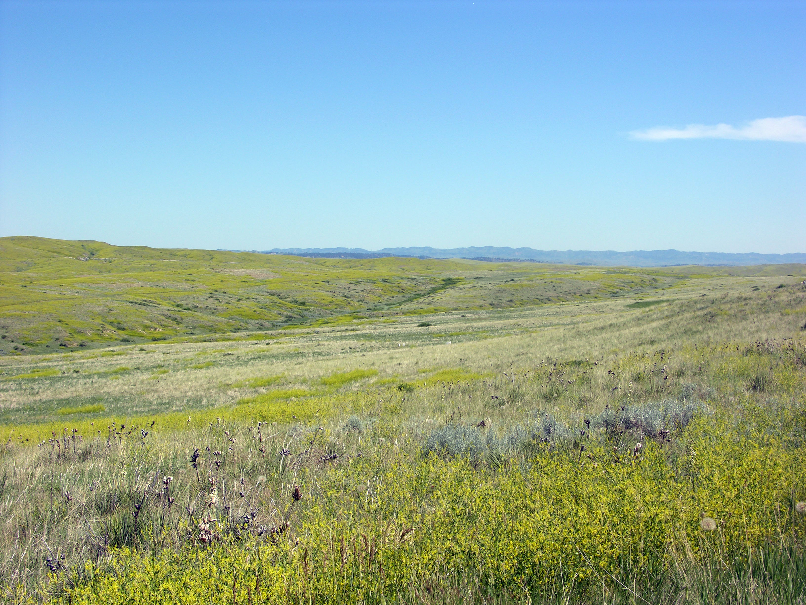 Hills north of the Little Bighorn River